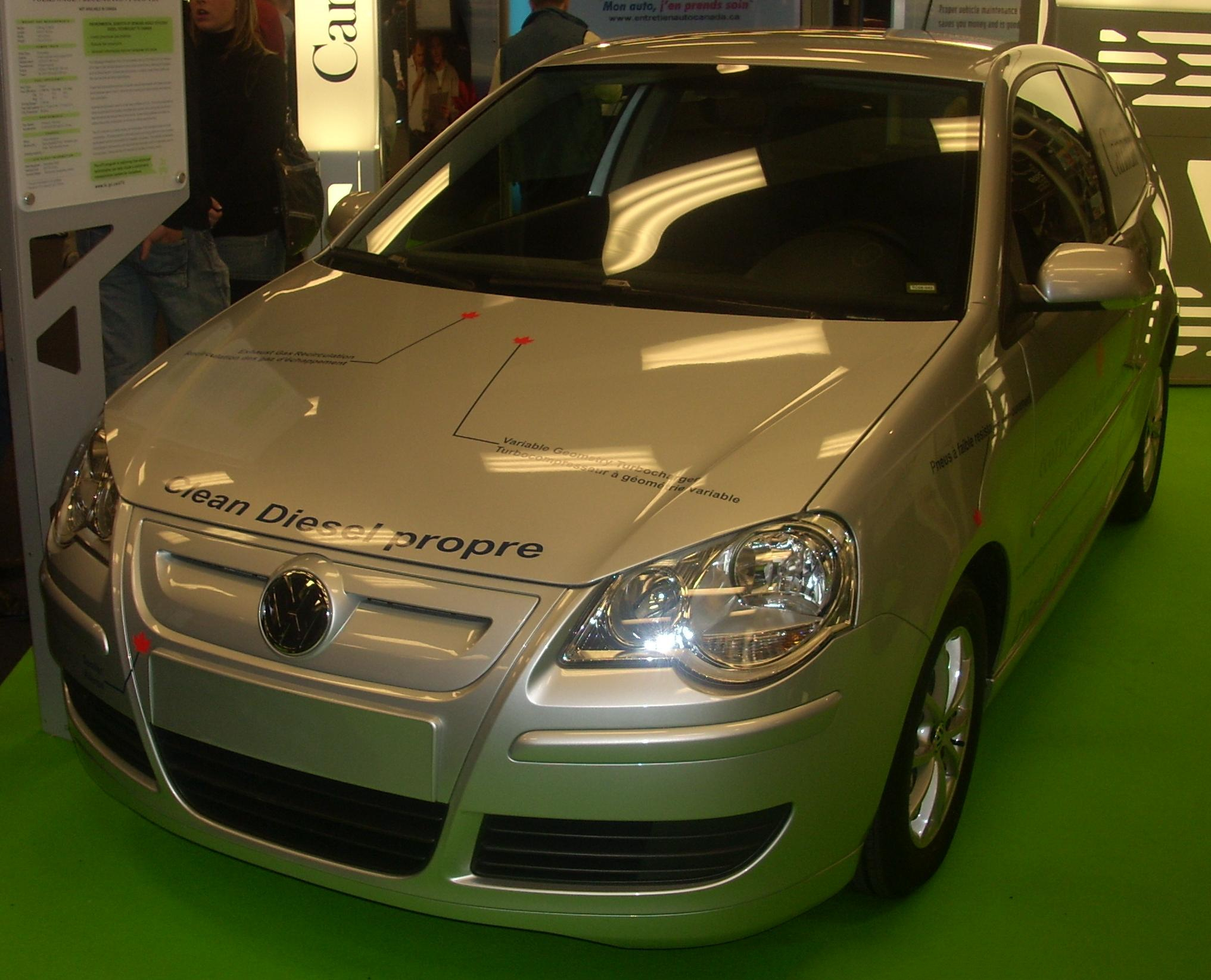 Volkswagen Polo photographed at the 2009 Montreal International Auto Show.